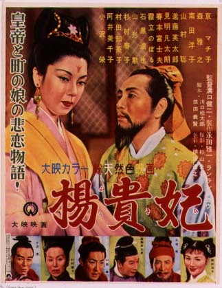 1955 movie poster for 1955 Japanese movie Princess Yang Kwei-Fei aka The Empress Yang Kuei-Fei (楊貴妃 Yōkihi).